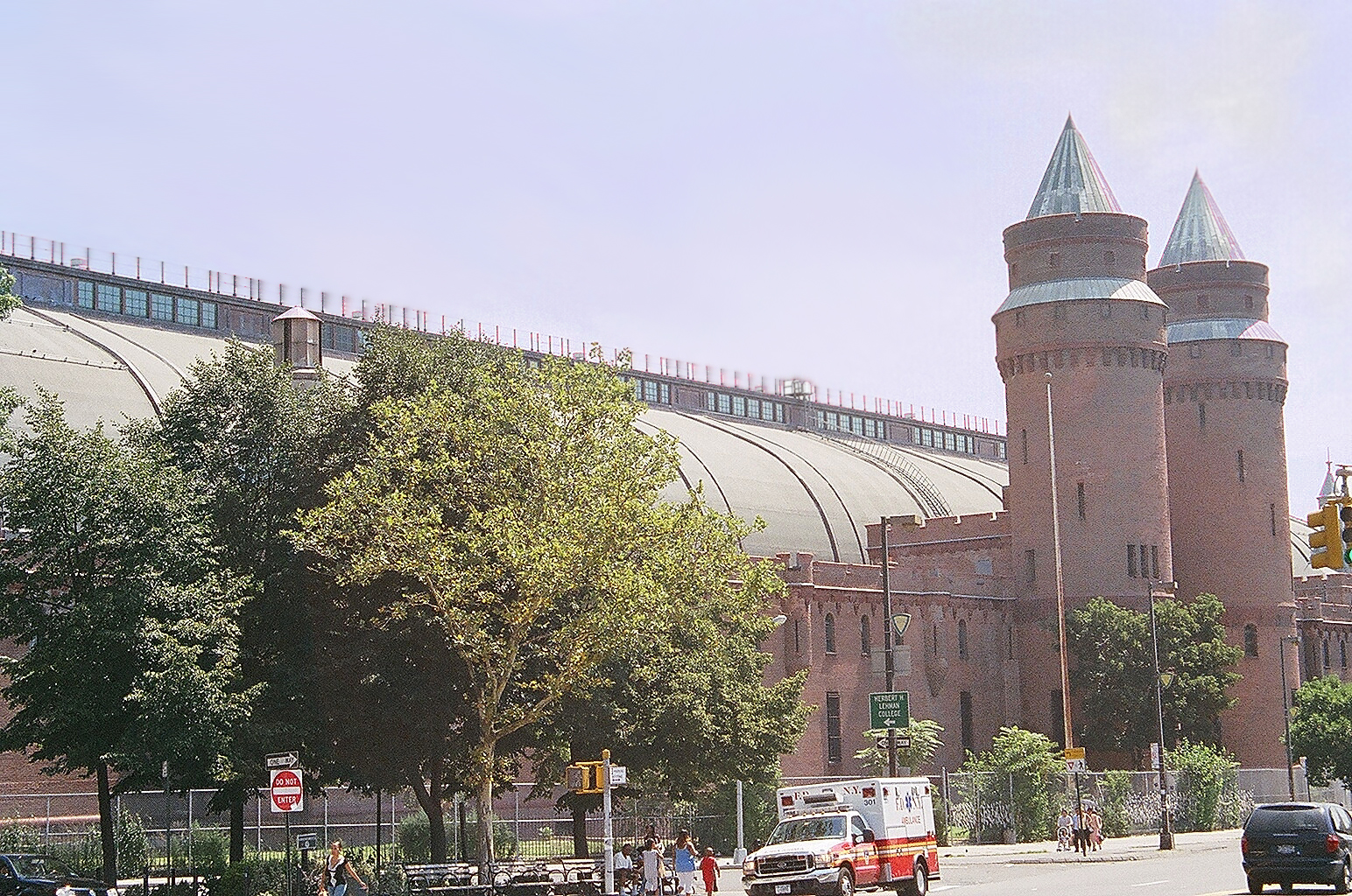 Kingsbridge Armory Category:Images of The Bronx